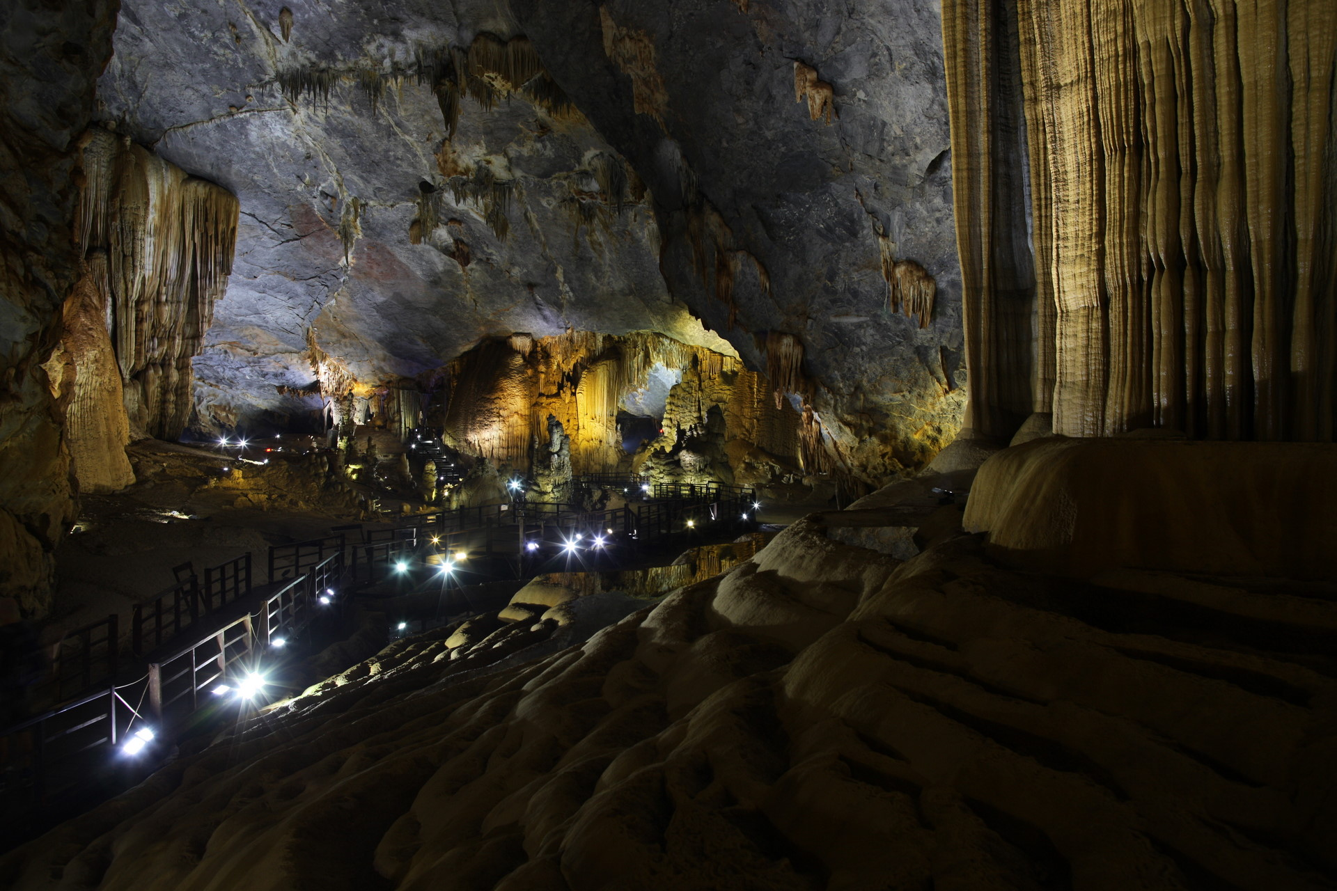 Động Thiên Đường (paradise cave) in the Phong Nha-Kẻ Bàng National Park, Vietnam